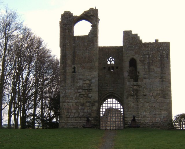 Gateway of Etal Castle (c.1340) The Castle gate is protected by a portcullis and two cannons.